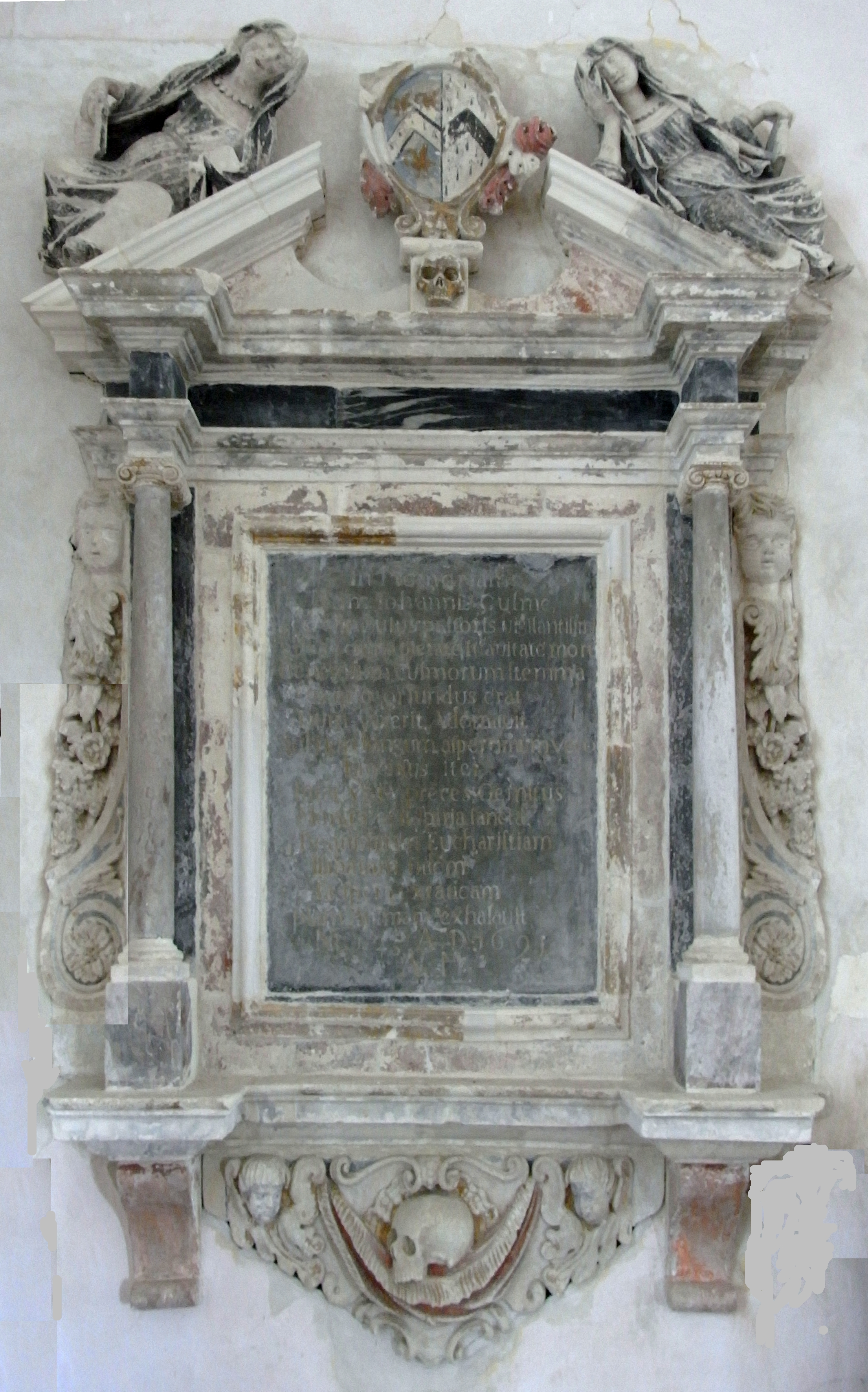 Mural monument to Rev. John Culme (d.1691), St Peter's Church, Knowstone, Devon. The armorials are Azure, a chevron ermine between 3 pelicans vulning their breasts or (Culme) impaling: Ermine, a chevron sable (arms of his wife's family, unknown). The Culme family held the sub-manor of Great Champson in Molland and acquired Canonsleigh Abbey after the Dissolution of the Monasteries. They were for a time patrons of the living of the combined parish of Molland-cum-Knowstone, perhaps because the Courtenay family, lords of the manor of Molland, were disallowed from exercising their right of presentation due to their long adherence to the Roman Catholic faith. The advowson was later leased by Rev. John Froude.[1] The text of the sermon preached at the funeral of Rev. John Culme on 2 December 1691 is extant. The Latin inscription is as follows: In memoriam Dom(inus) Johannes Culme …. huius pastoris vigilantissimus qui doctrina pietate suavitate moruit. Generosum Culmorum stemma ex quo oriundus erat dum vixerit adornavit qui non longum asperimum, vero emensus iter inter vola preces. Gemitus monita et suspiria sancta beatissimam Eucharistiam illibatam fidem et spem extaticam piam animam exhalavit Nov. 26 A.D. 1691. A.M. ("In memory of John Culme, the most vigilant pastor of this flock, who died gently in pious doctrine. Whilst he lived he adorned the noble stock of the Culmes from which he arose; Who not a long harsh groan did he exhale, in truth freed from errors, prayers, warnings and sighs towards the most blessed Eucharist.....He breathed forth undiminished faith and hope his pious spirit....on Nov. 26 A.D. 1691")